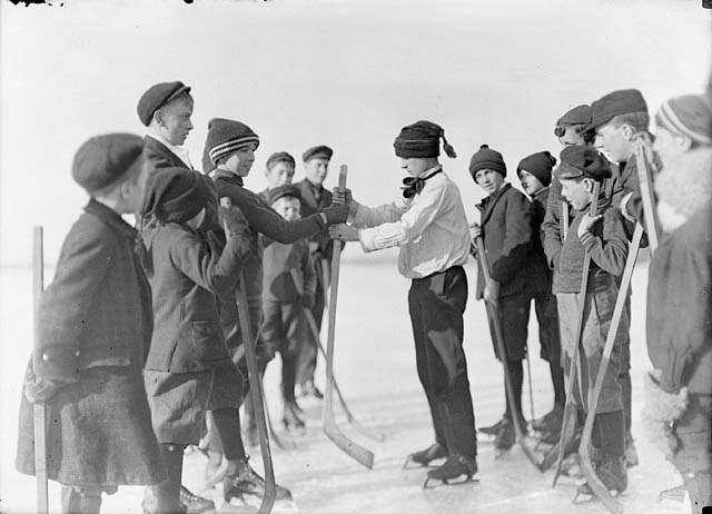 A game of "shinny" - boys in Sarnia Bay, Ontario picking teams for a hockey match.